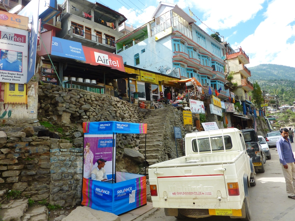 A typical scene on the main street, downtown Reckong Peo